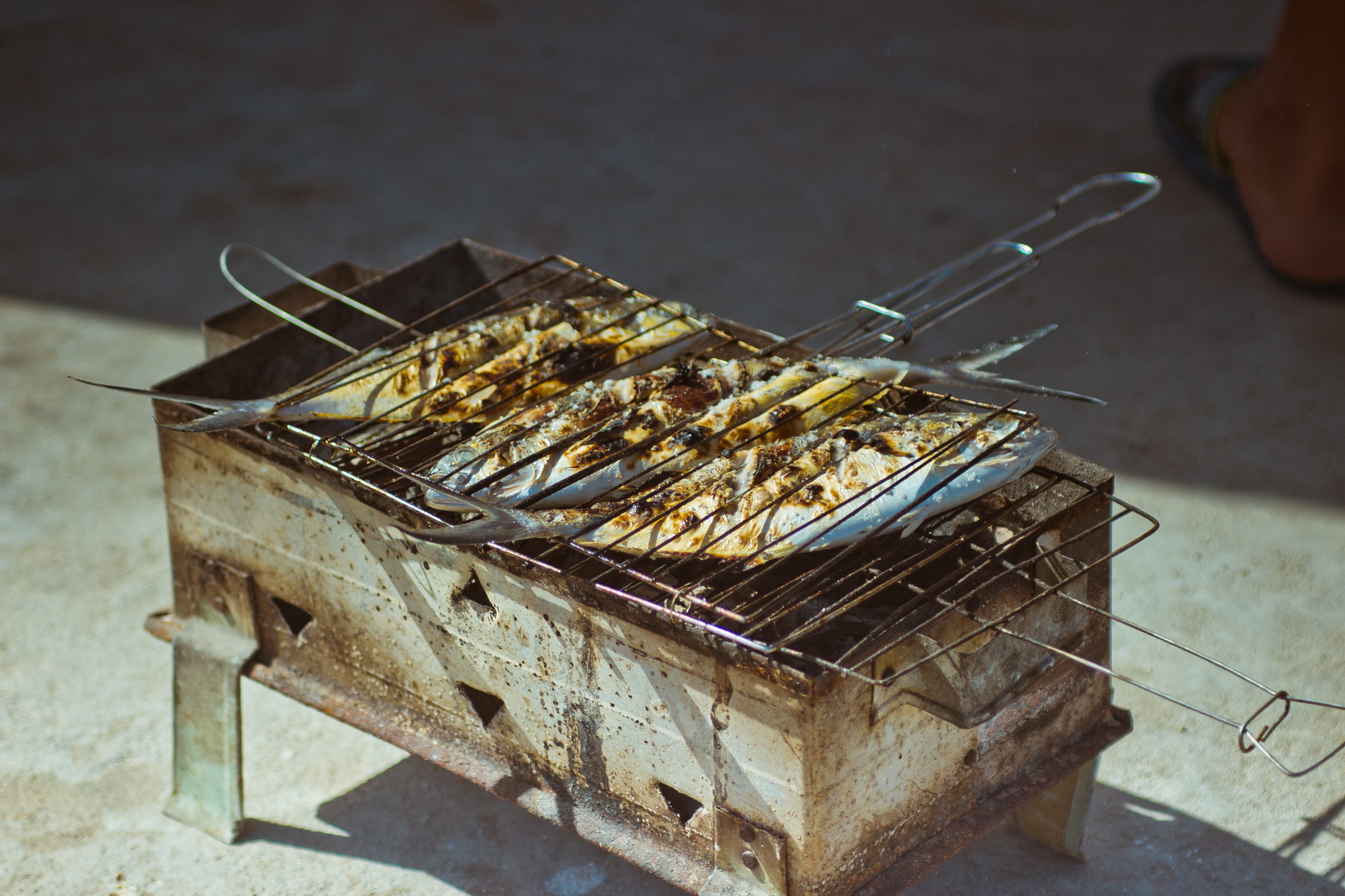 sardine